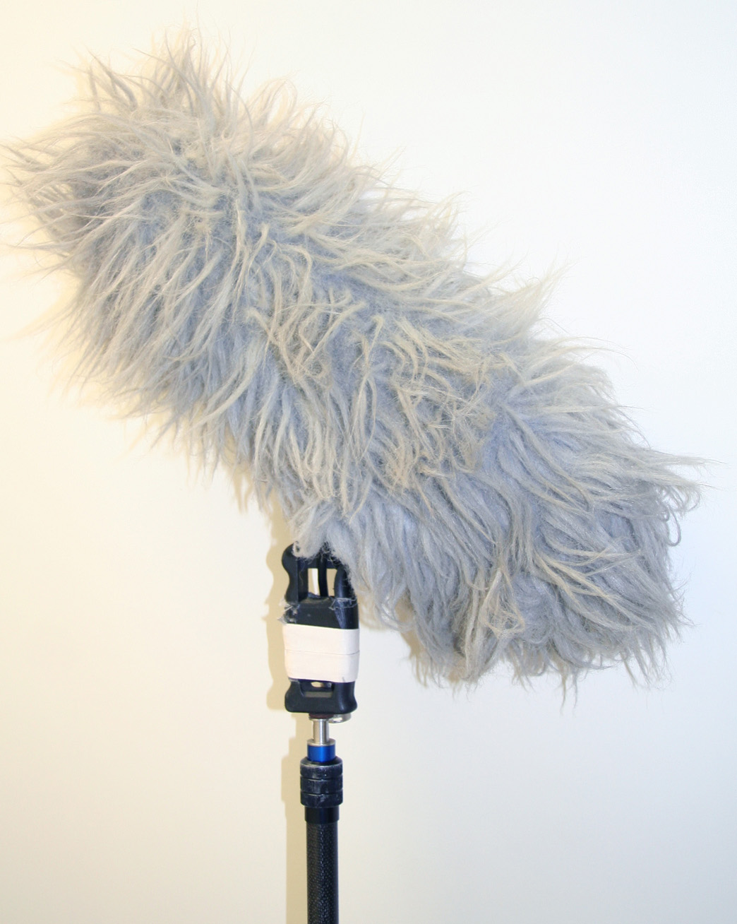 Microphone Boom with large fur windshield